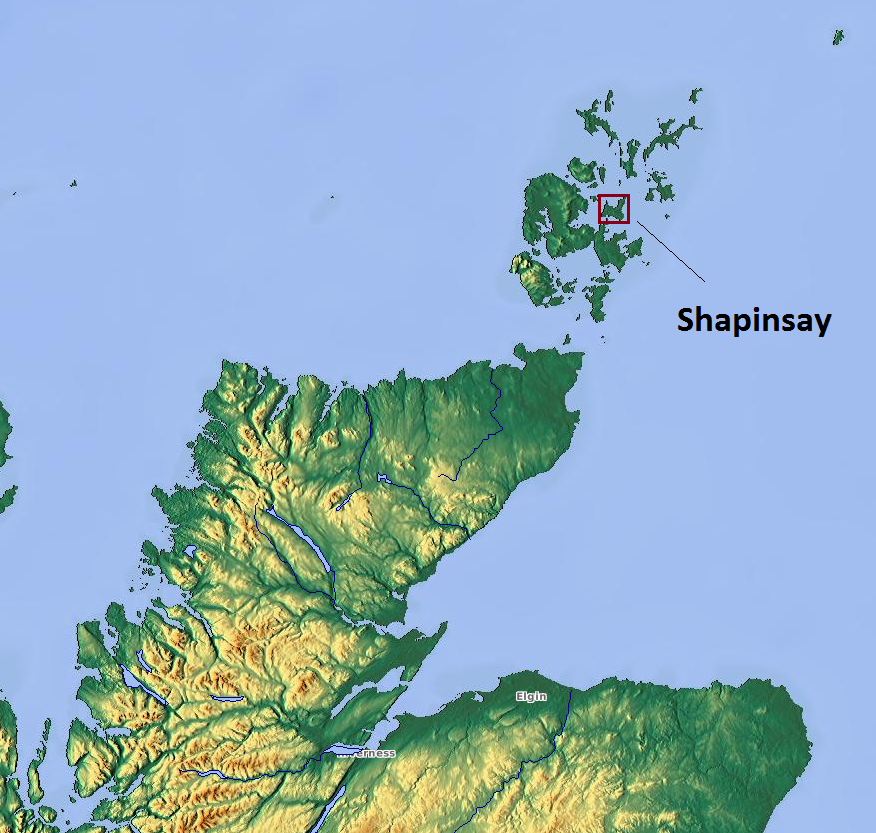 Map locator of Shapinsay